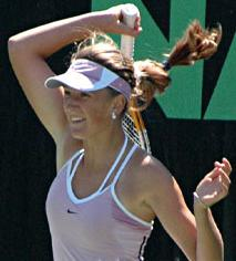 A personal photo of Victoria Azarenko